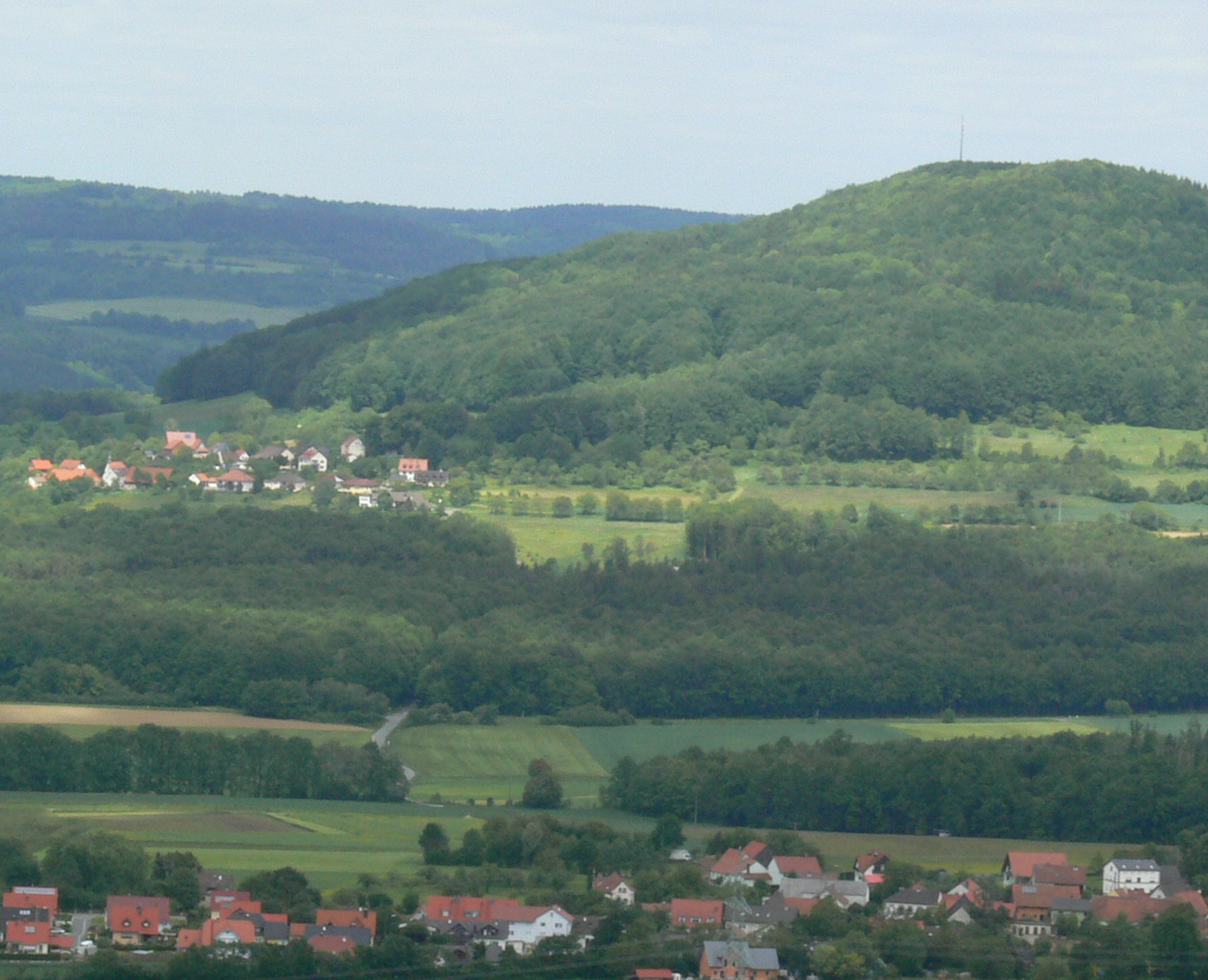 views of Scheßlitz near Bamberg, Germany